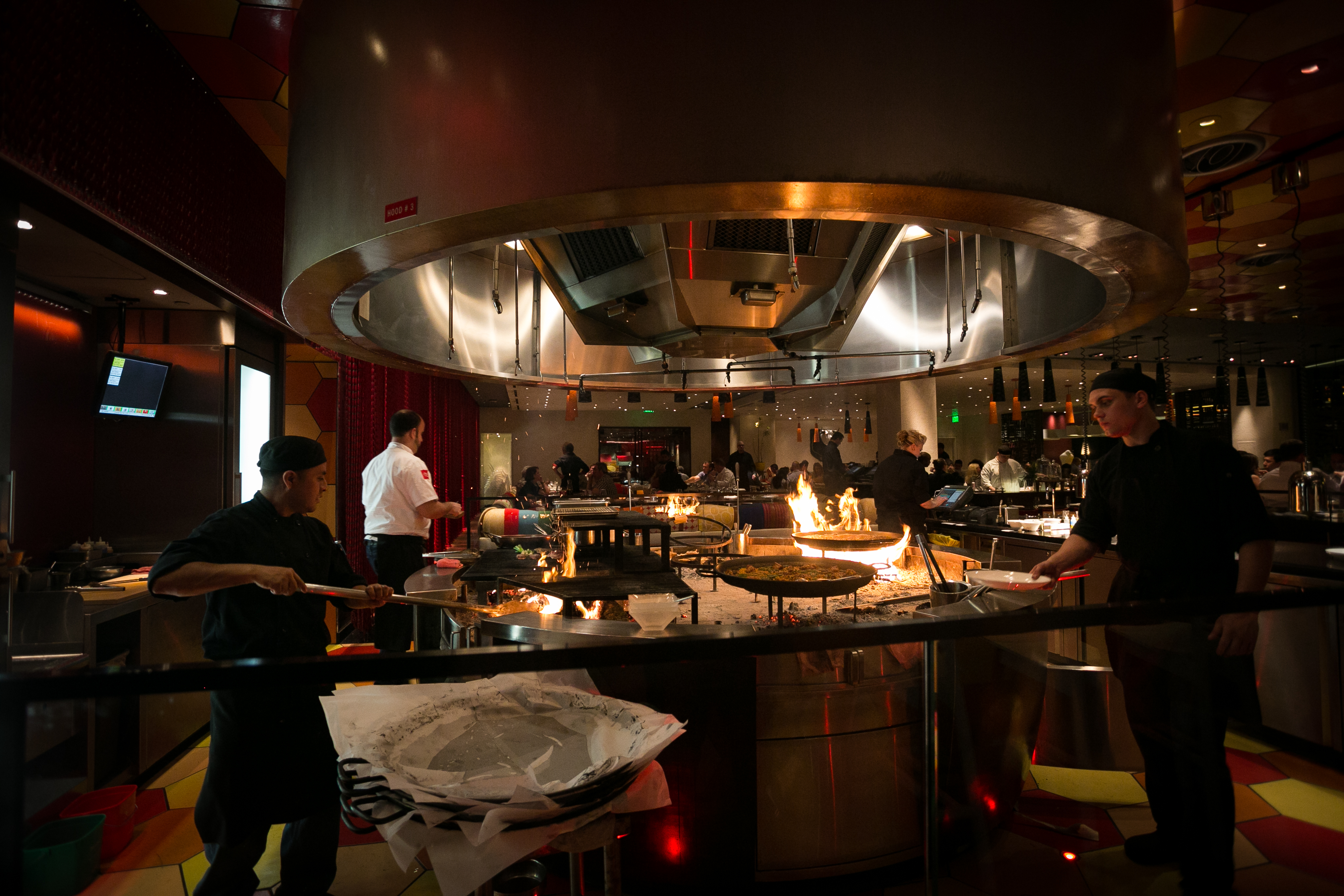 Jaleo, Las Vegas, NV Date Visited: July 18, 2013